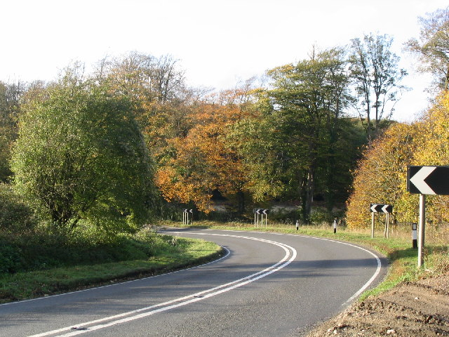 Bend on the A339. This shot, near Winslade is typical of the many bends on the A339 between Basingstoke and Alton. The road hazards are treacherous and are notorious for high death rates of motorists over the years. By contrast, the surrounding countryside is very pretty.